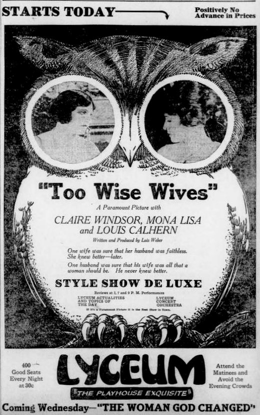 Newspaper advertisement for the American film Too Wise Wives (1921) with Claire Windsor and Mona Lisa, on page 3 of the August 20, 1921 Duluth Herald.